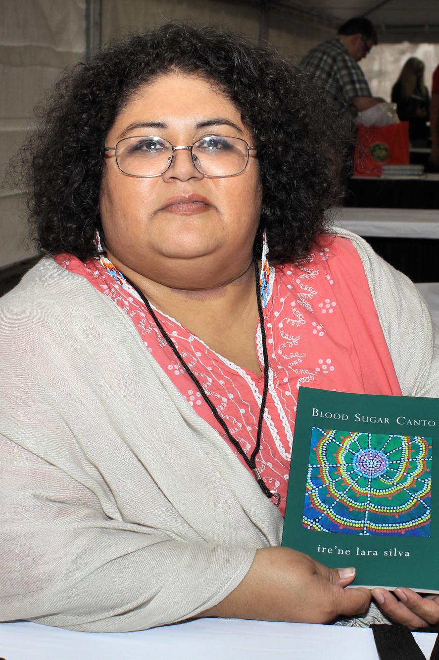 Author ire'ne lara silva at the 2016 Texas Book Festival in Austin, Texas, United States.